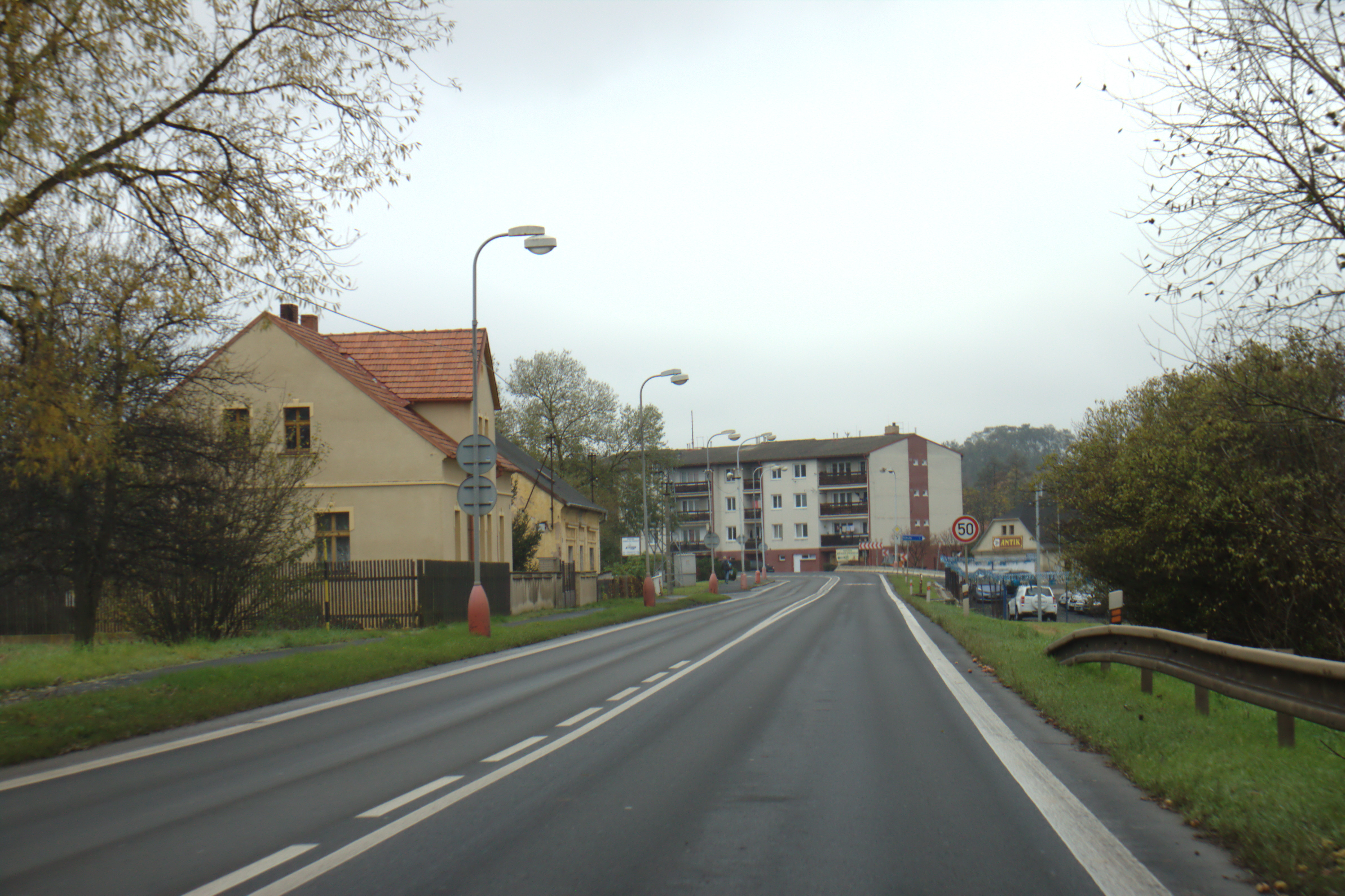 I/6 road passing through Lubenec, Ústí Region, CZ